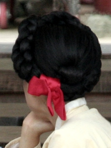 A women with the komeori style with a daenggi (ribbon)